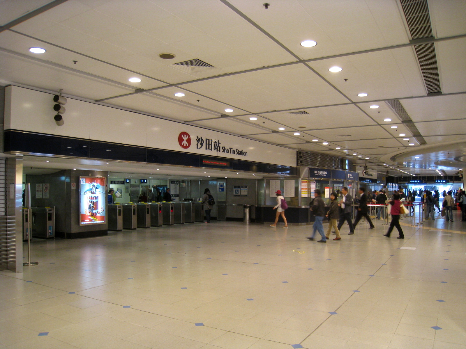 HK Sha Tin Station Concourse 沙田站非收費區大堂